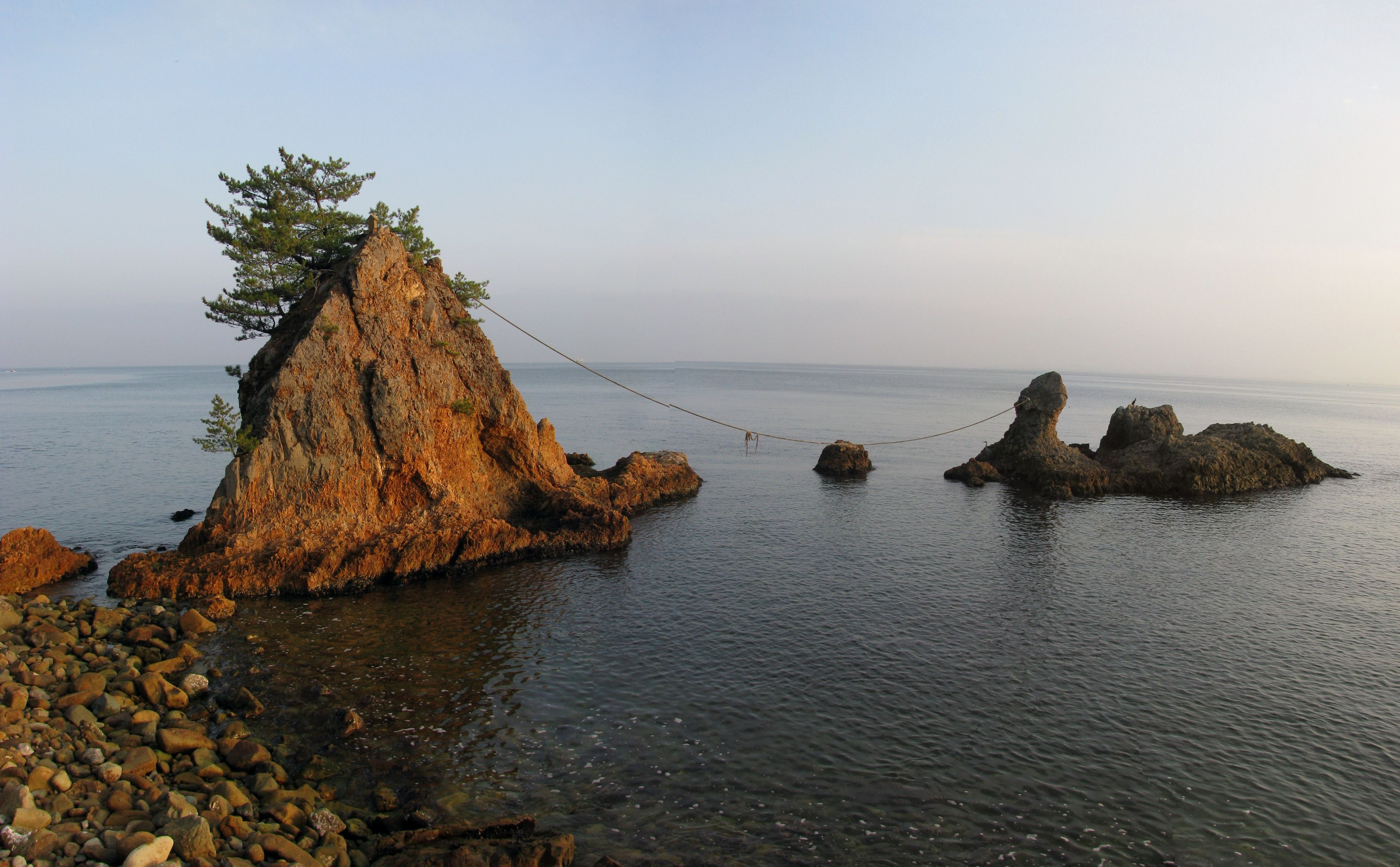 The Meoto Iwa. This place is Matsue, Shimane Prefecture, Japan.